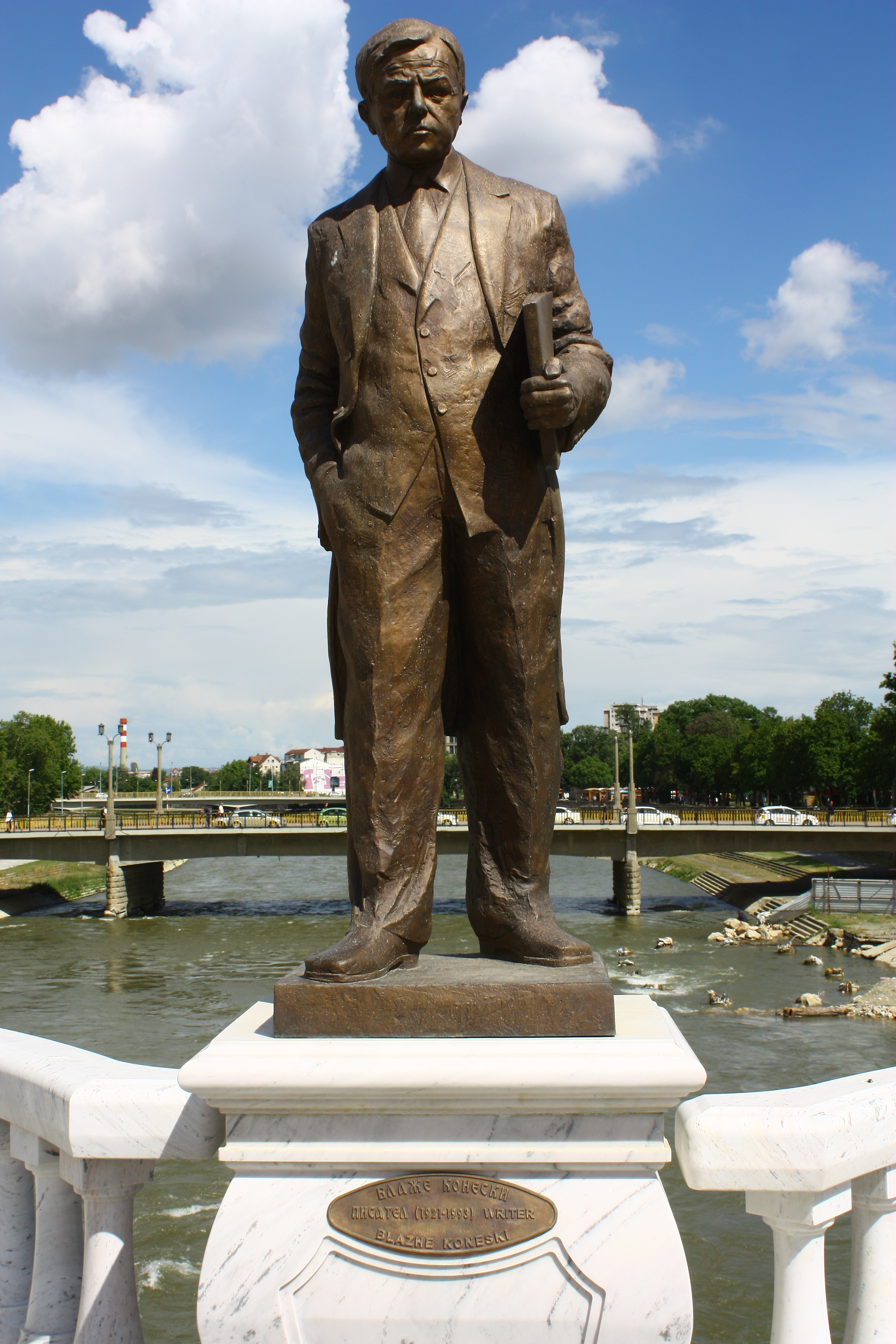 Sculpture od the Bridge of Arts in Skopje, Macedonia This image is uploaded as part of the picture contest Wiki Loves Cultural Heritage in Macedonia 2013. English | македонски | +/−